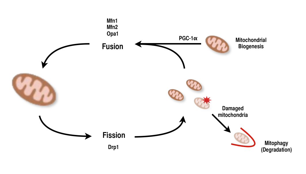 The processes of fission and fusion reorganize the mitochondrial network